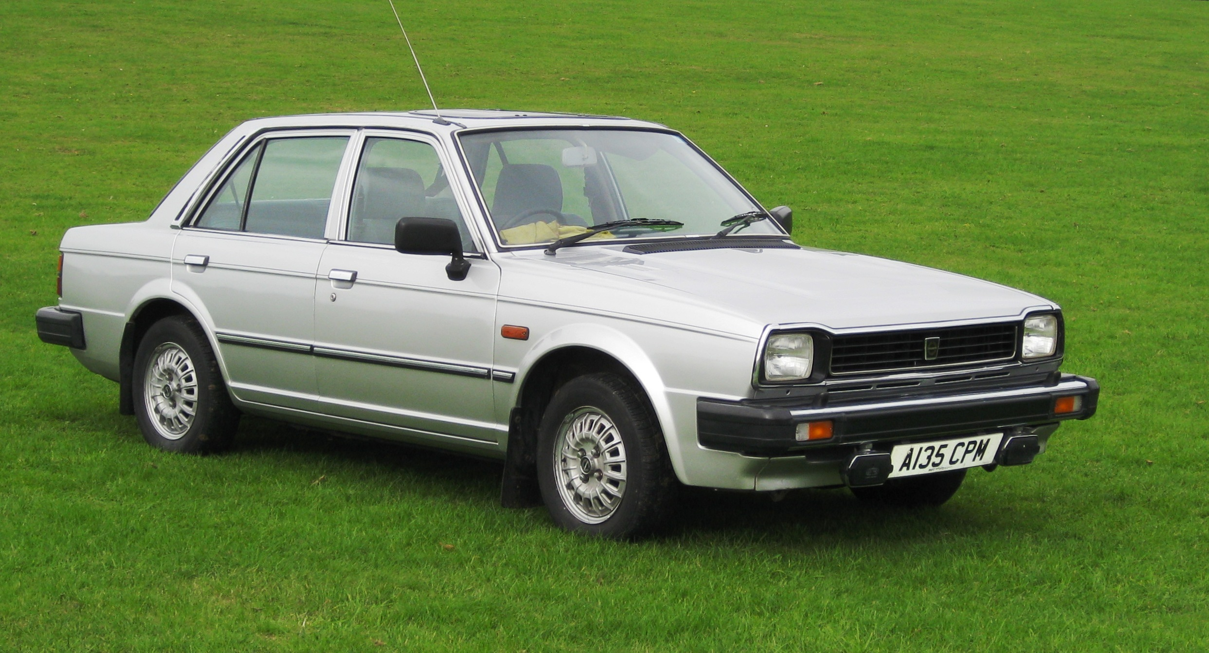 Triumph Acclaim at Knebworth Classic car Show